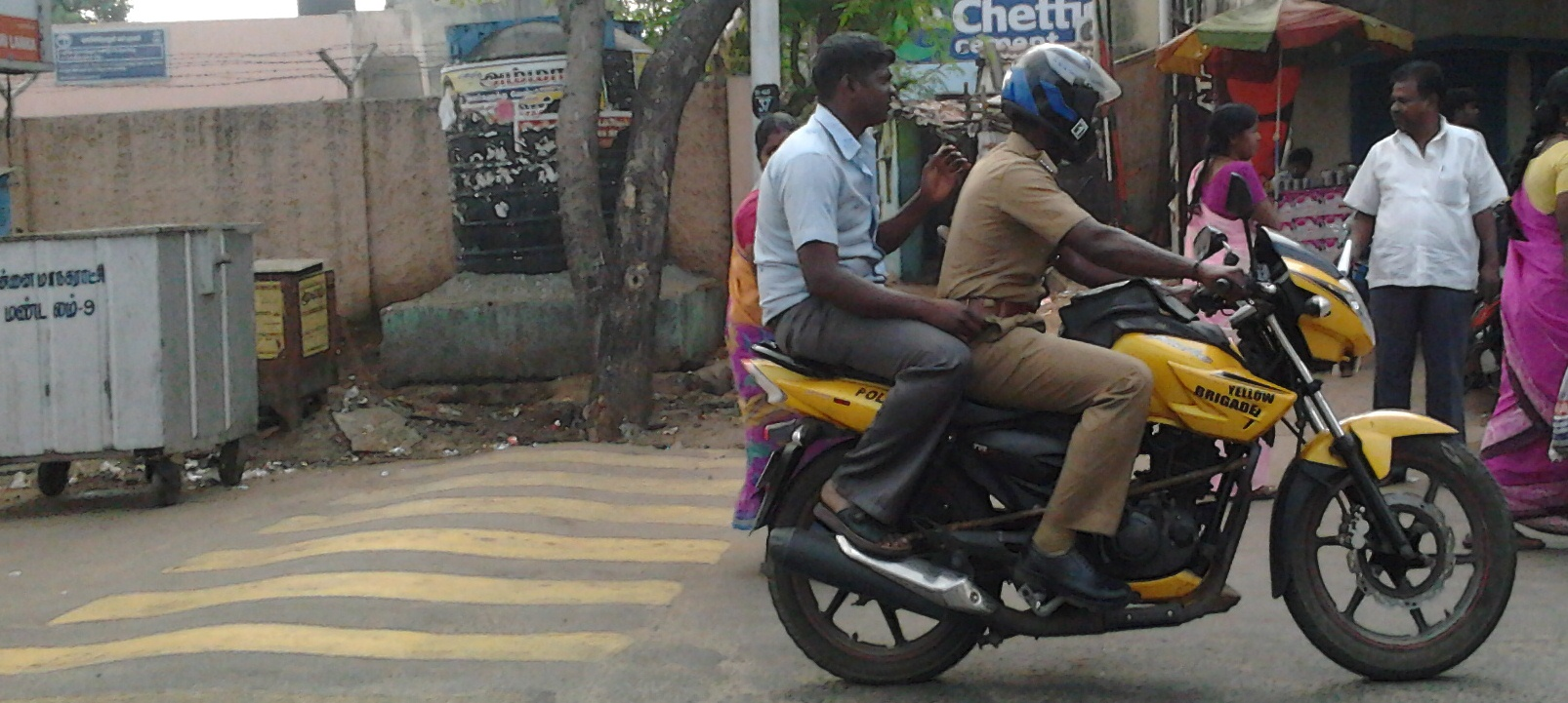 Photoed using Samsung Wave 525. Image has been cropped for better representation.